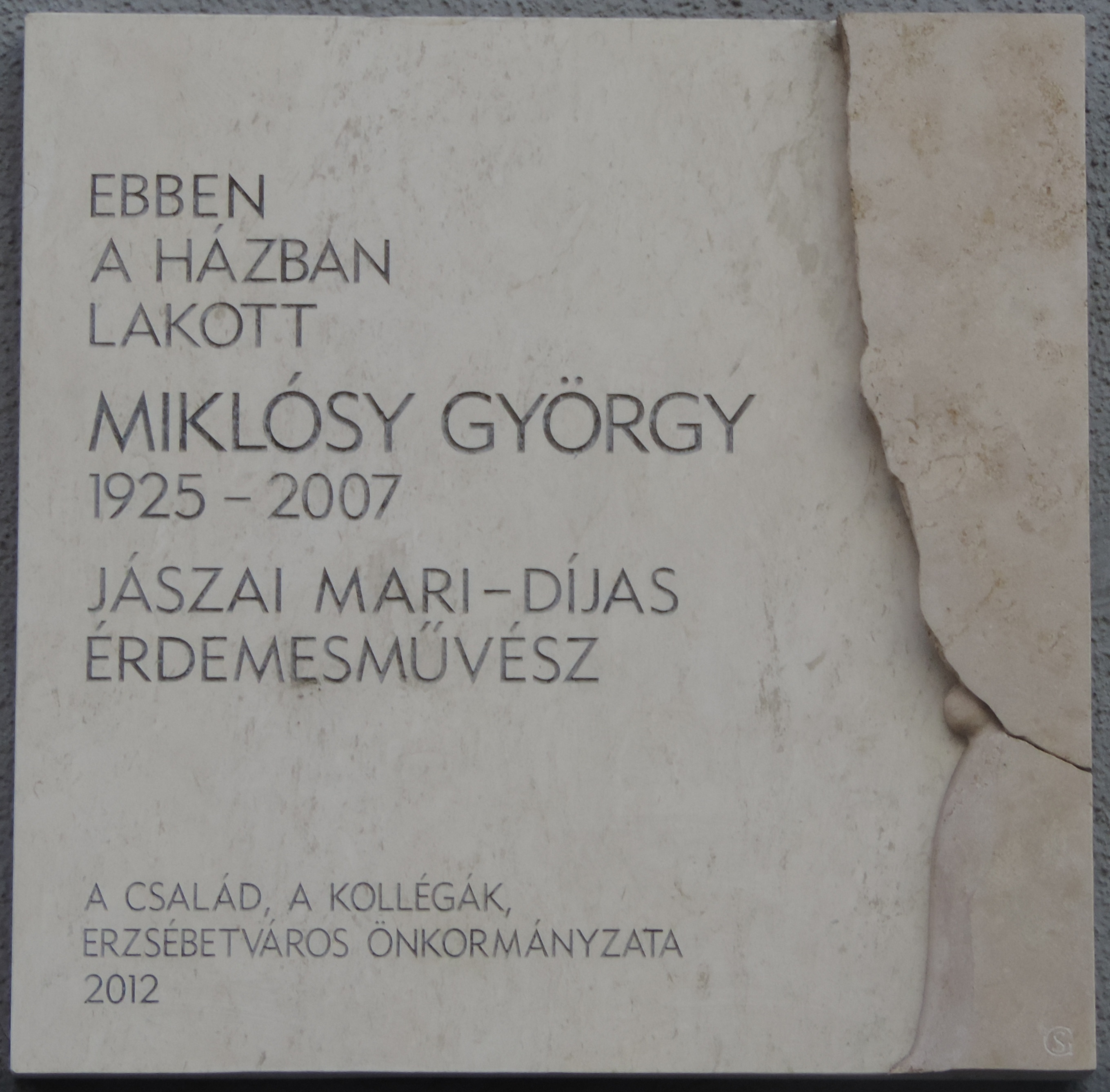 Commemorative plaque of György Miklósy in Budapest District VII, Dohány utca No 57